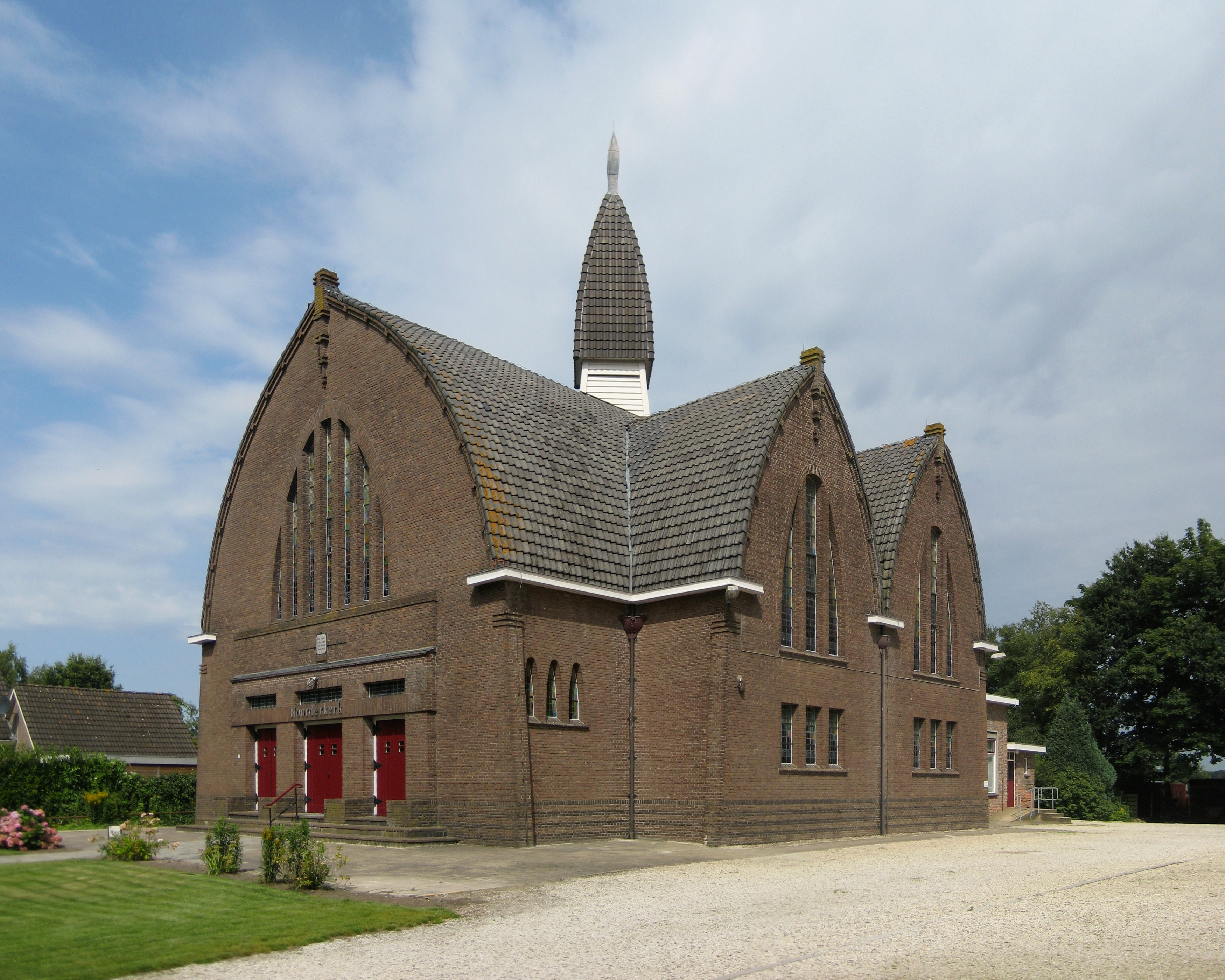 The Noorderkerk (b. 1925) in Nieuw-Amsterdam, a village in the Dutch province of Drenthe.